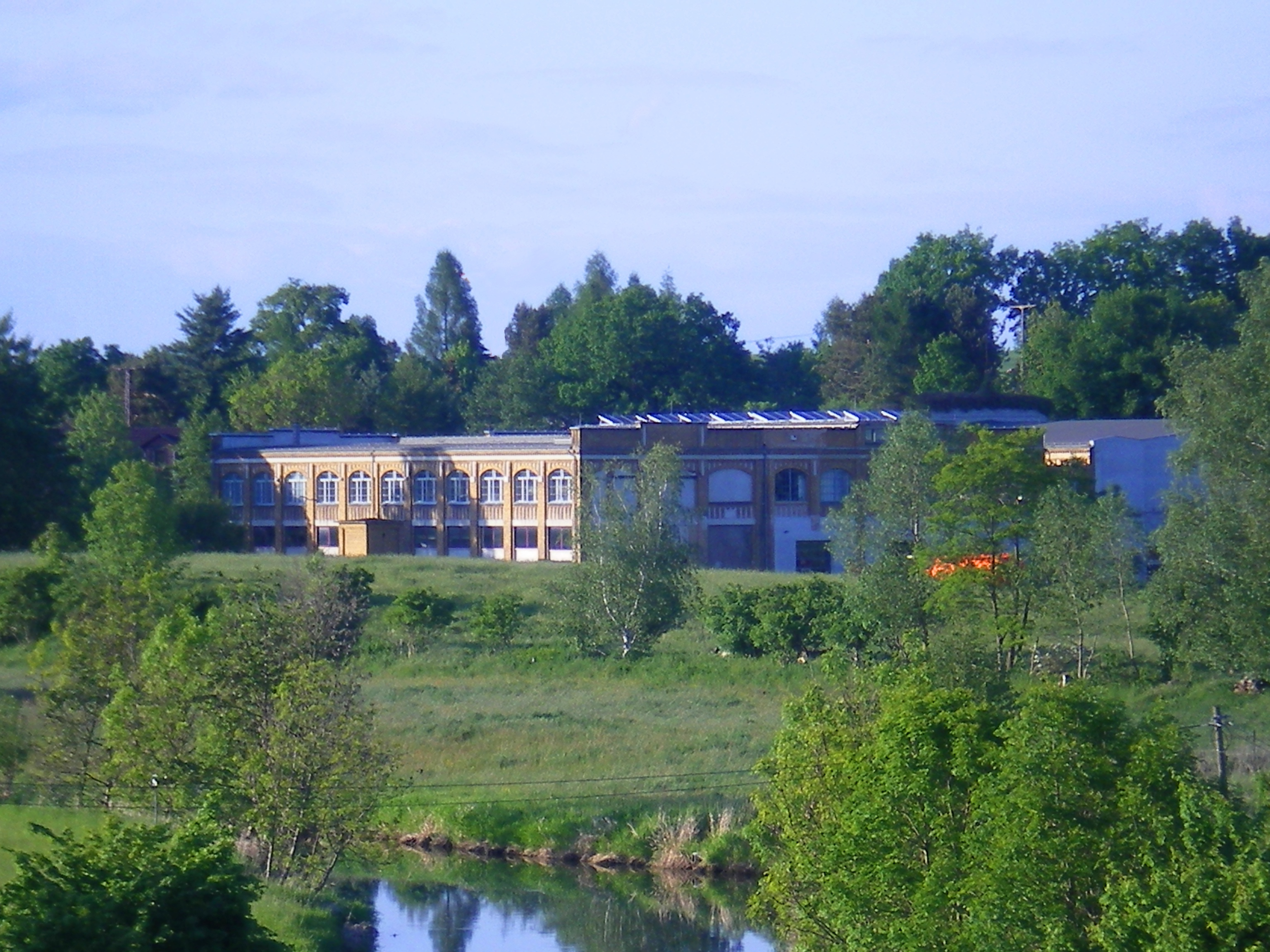 Paper mill in Fockendorf near Altenburg/Thuringia